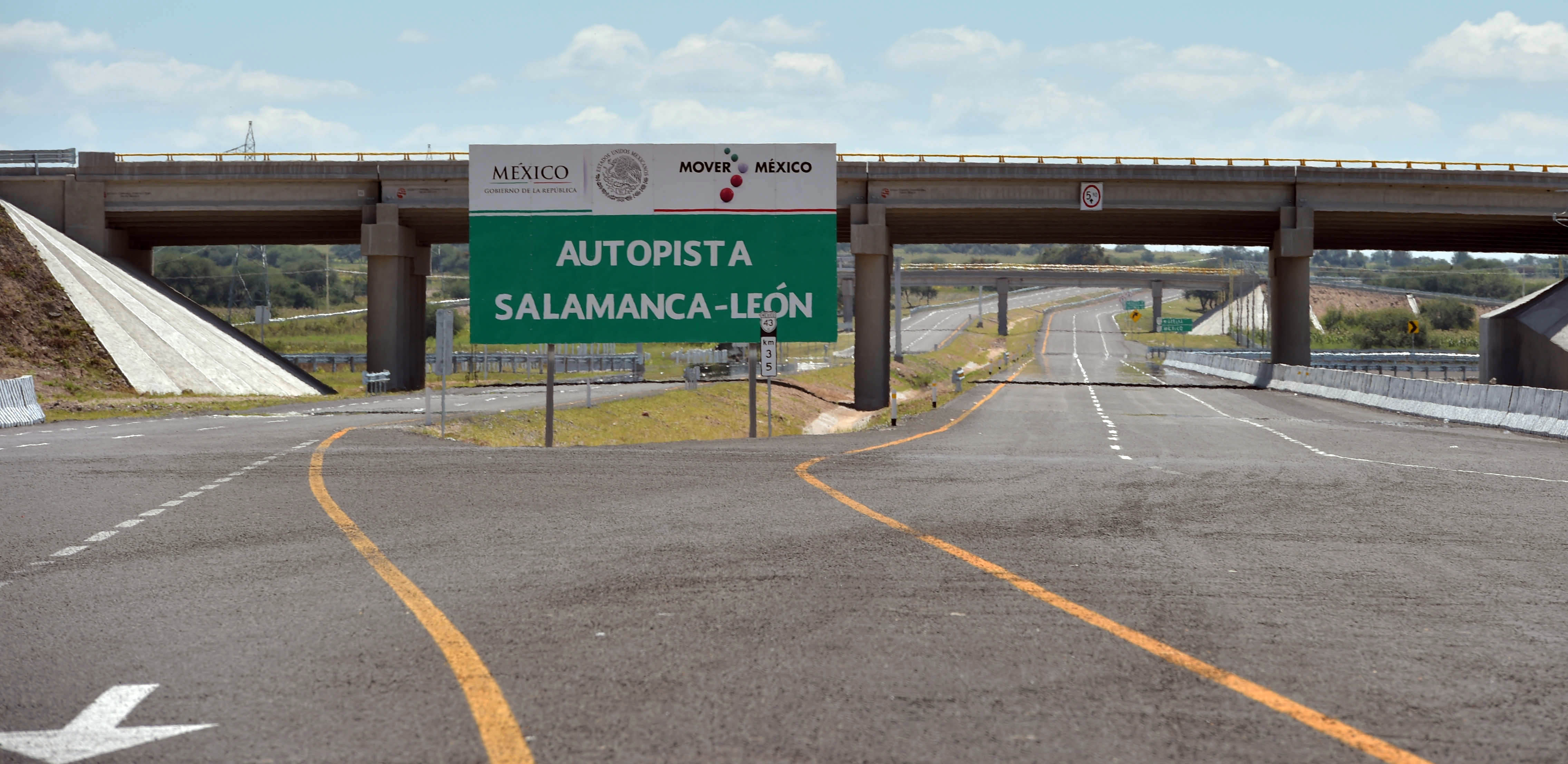 Inauguración de la Autopista Salamanca-León. Guanajuato. 21 de septiembre de 2015.